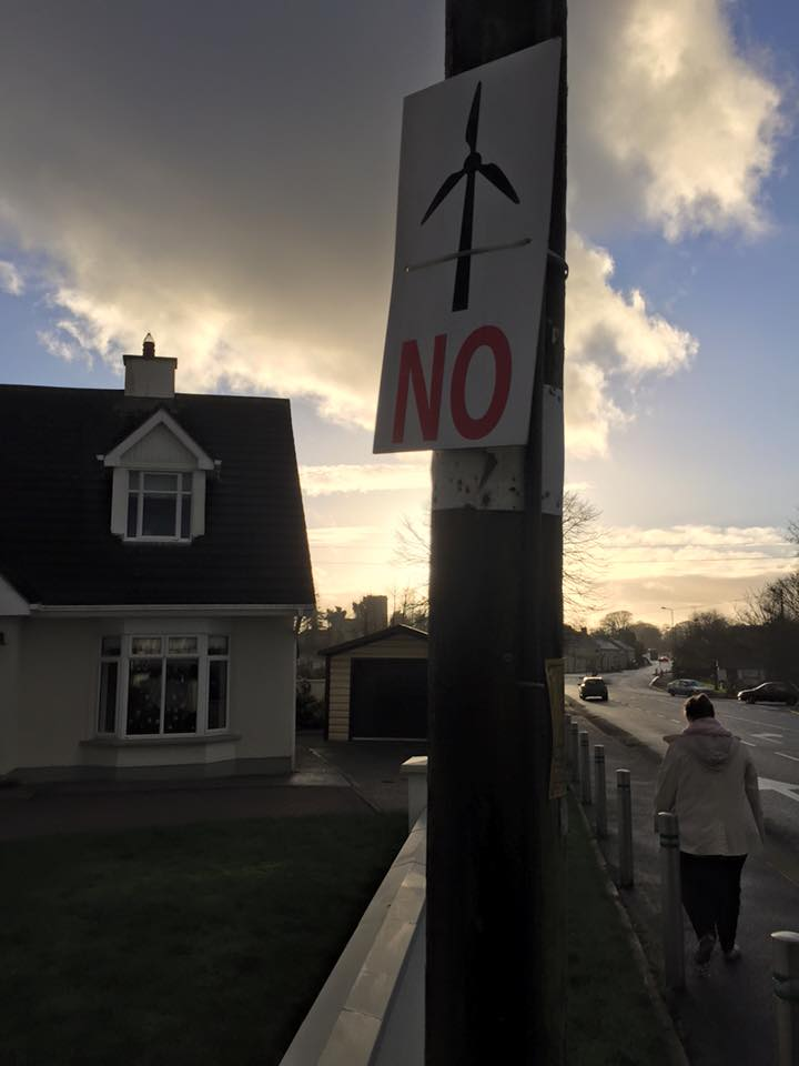 Anti Wind Farm posted in Rochfortbridge, County Westmeath, Ireland, taken in 2014